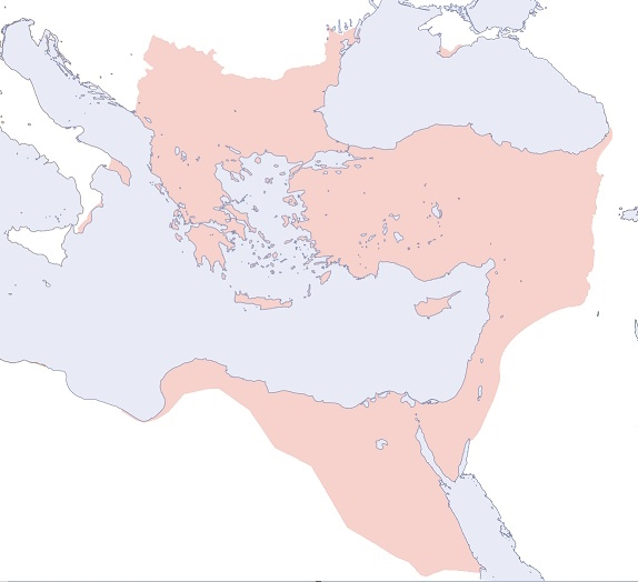 The Roman Empire in 500 AD.